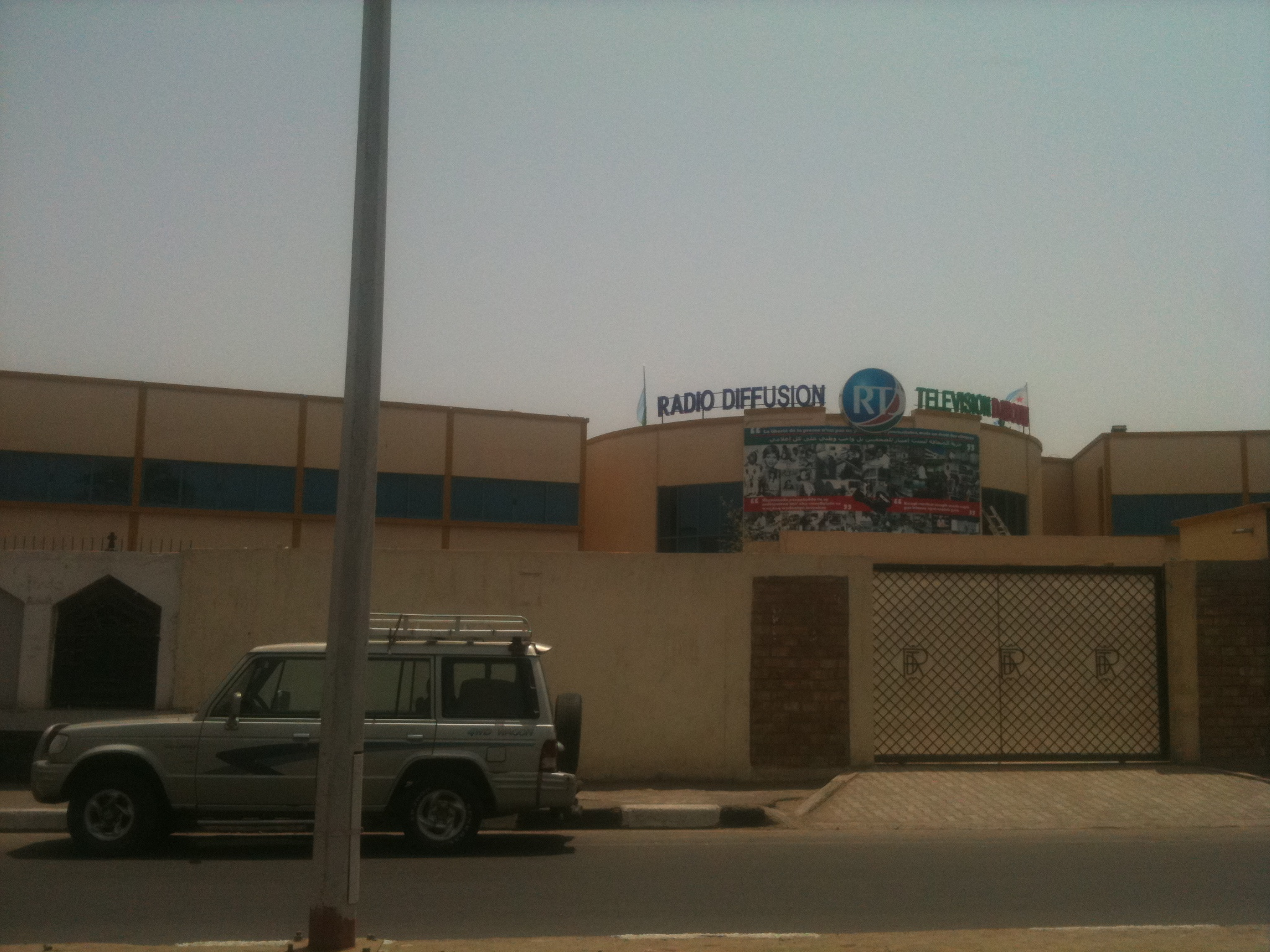 The Radio Television of Djibouti (Radiodiffusion Télévision de Djibouti) headquarters in Djibouti City.